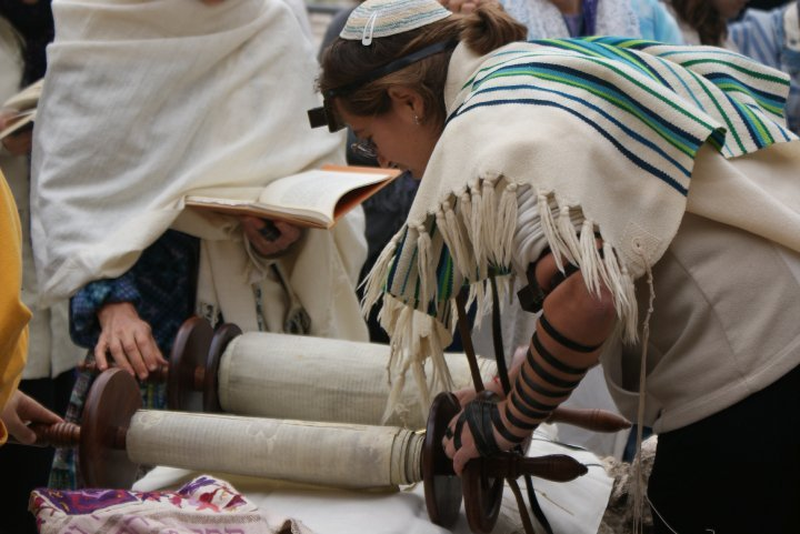 Torah reading by Women of the Wall